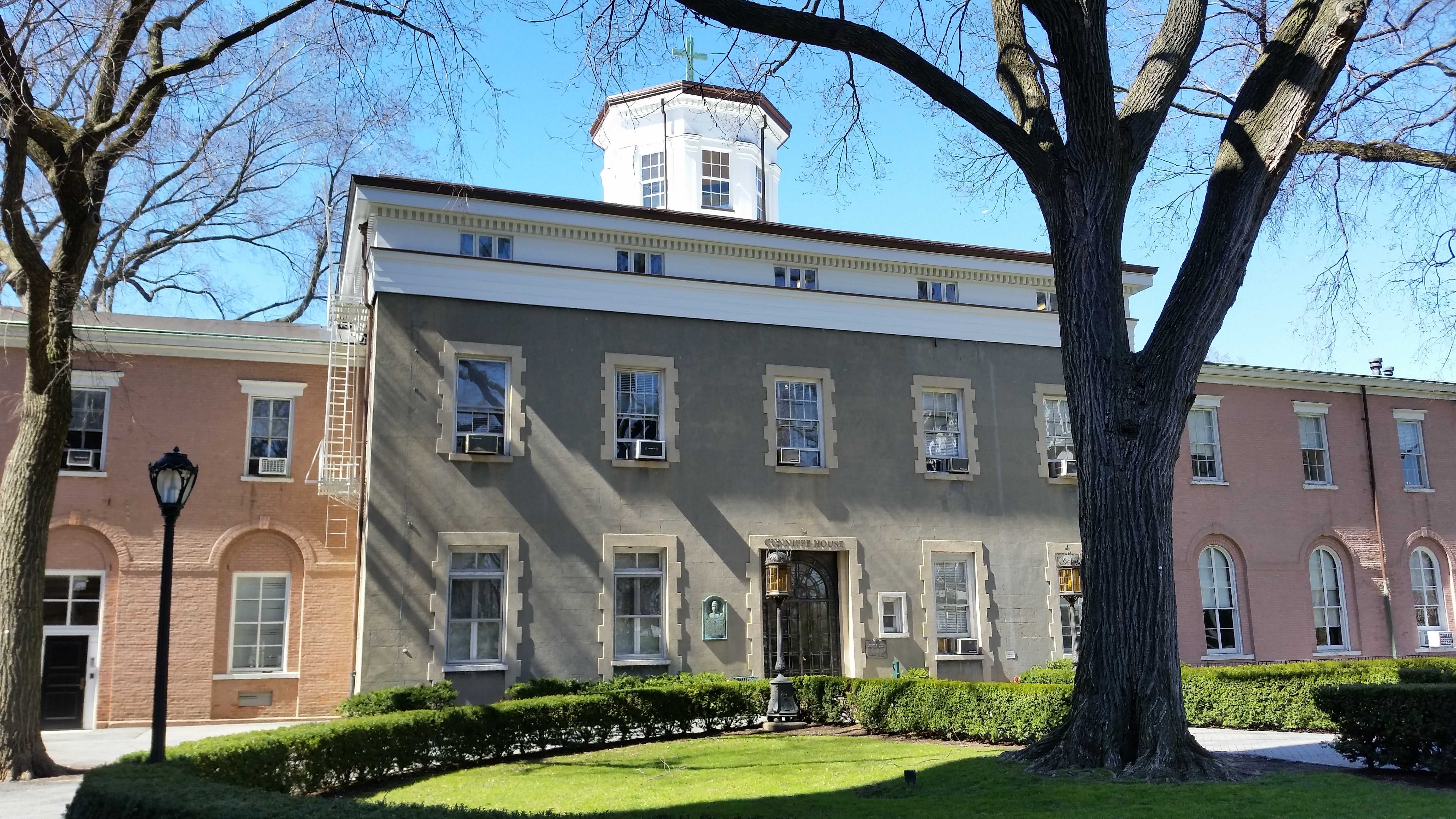 Administrative building, Fordham University